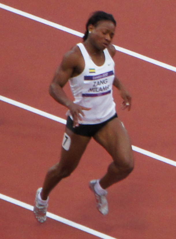 London 2012 Olympics Athletics